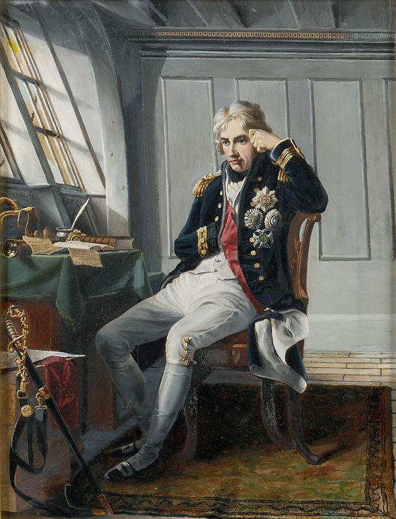 An imaginary full-length portrait to left wearing vice-admiral’s undress uniform with the star and ribbon of the Bath, the Neapolitan Order of St Ferdinand, the Turkish Order of the Crescent and German Order of St Joachim and of Merit. His empty sleeve is pinned across and he rests his head on his left hand in contemplation. Nelson is shown sitting at his desk in his day cabin on the ‘Victory’, on the morning of Trafalgar. On the desk is the codicil to his will, as well as papers, ink well, telescope and hat.